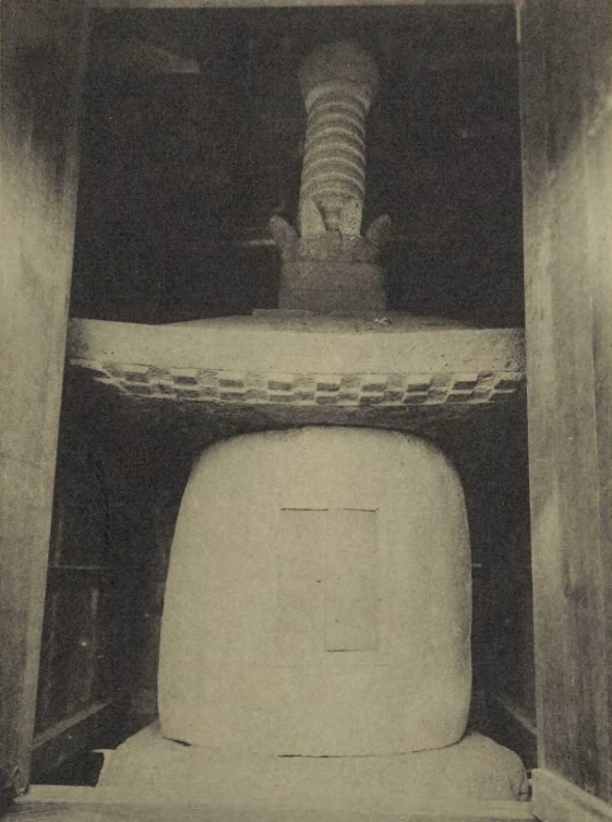 A stone pagoda known as the Tettō (鉄塔 'iron tower') once located in the main shrine (honmiya) of the Upper Shrine of Suwa (Kamisha). It has since been relocated to Onsenji Temple (温泉寺) in Suwa City when Shinto and Buddhism were separated by government decree during the Meiji period.